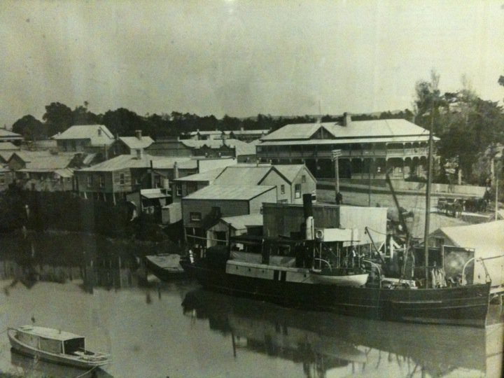 Photo of Waiuku Harbor taken in 1954 as appears at Waiuku Museum